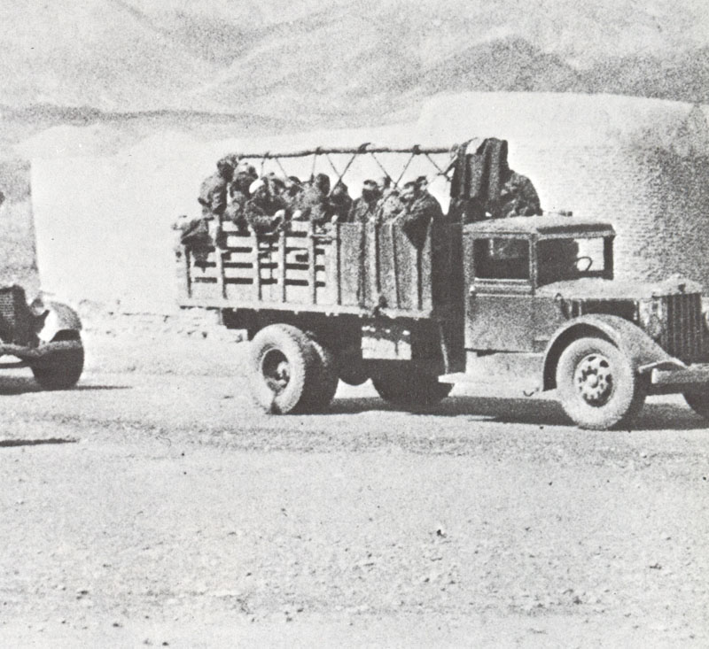 Soviet troops are crossing the border with Iran. Monday, August 25, 1941.